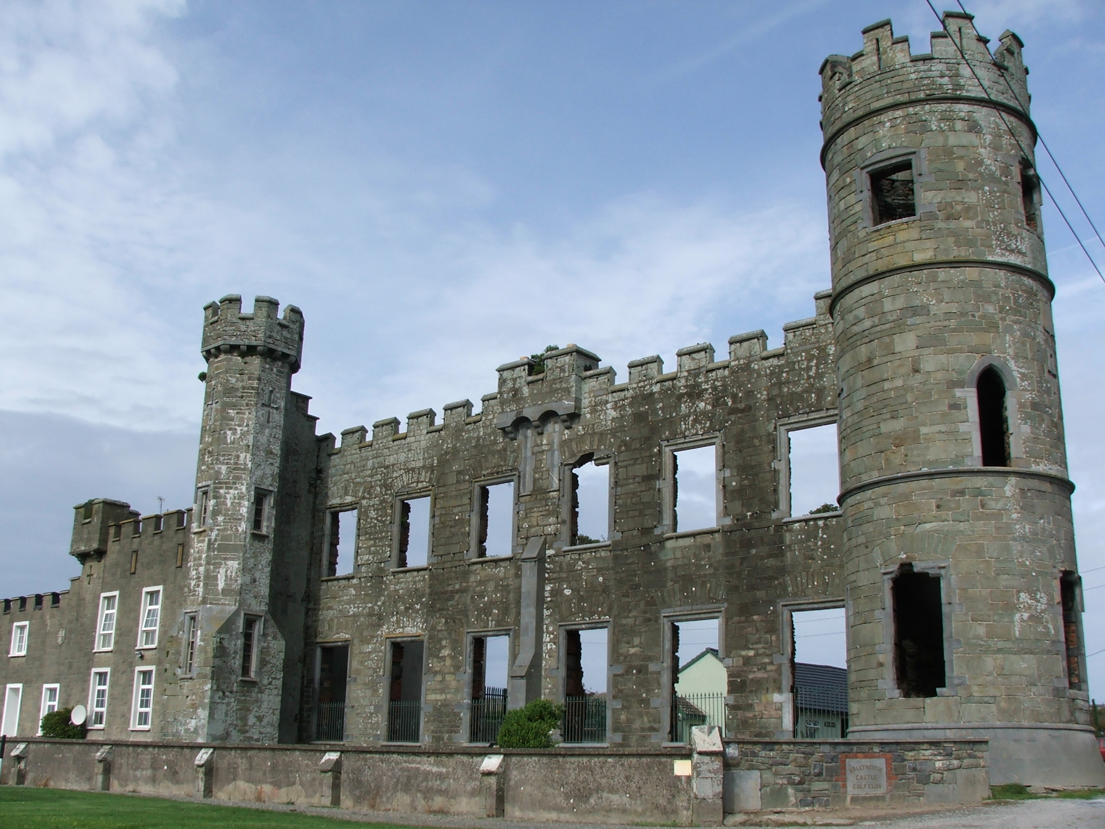 Ballyheigue Castle, Ballyheigue, County Kerry, Ireland Created by Kglavin Oct 2005